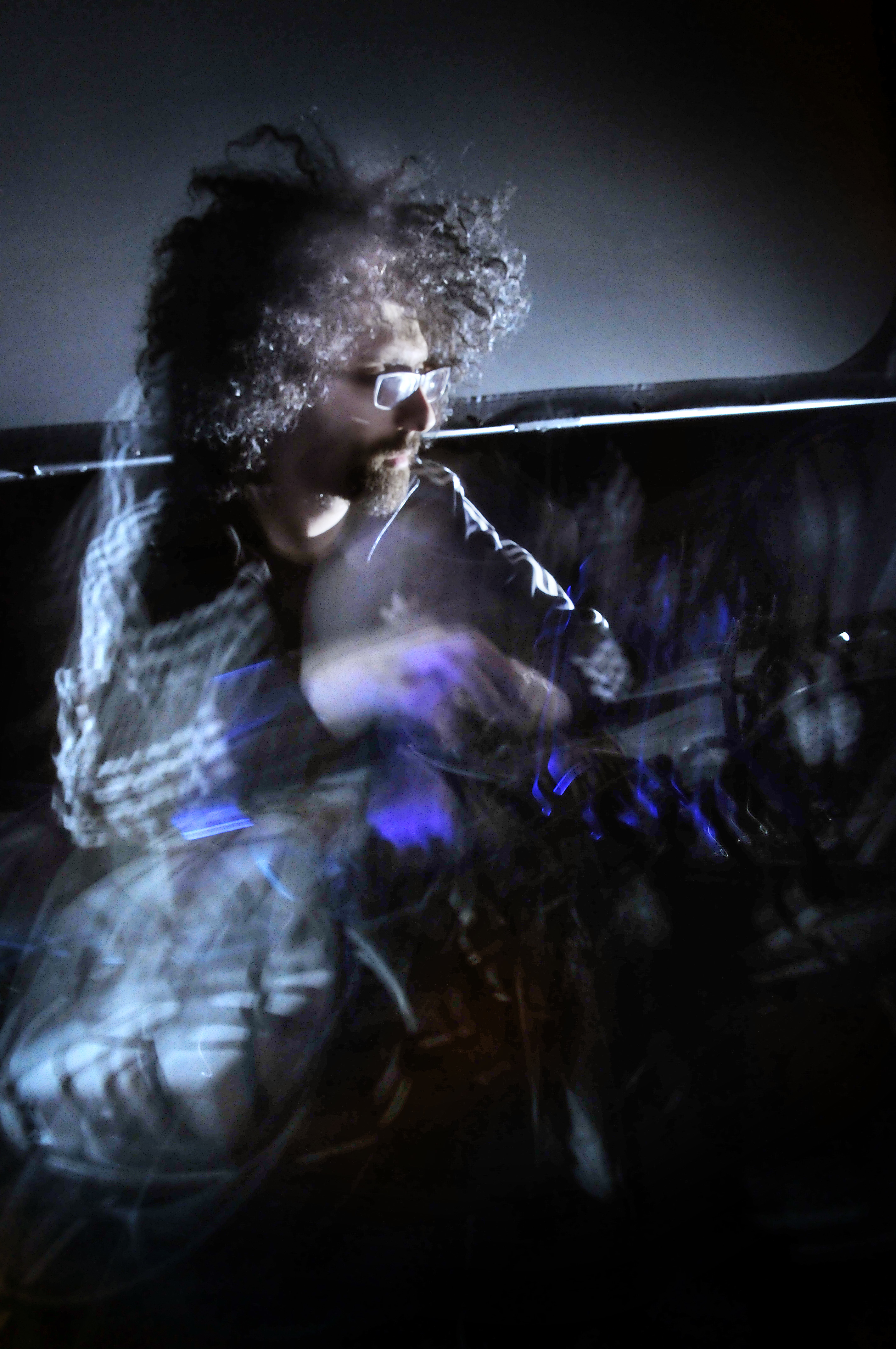 Raz Mesinai Performing